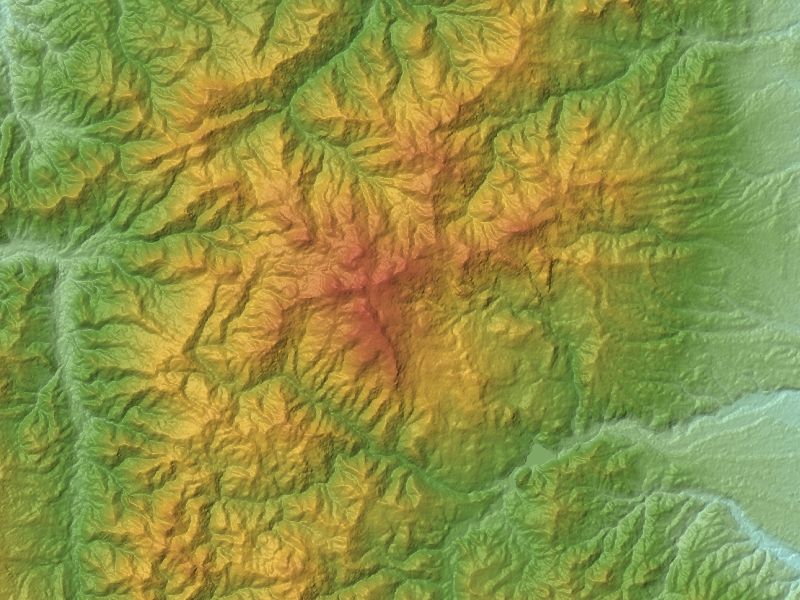 Mount Yakeishi (Yakeishi-dake) is a extinct volcano in Iwate Prefecture, Honshu, Japan.